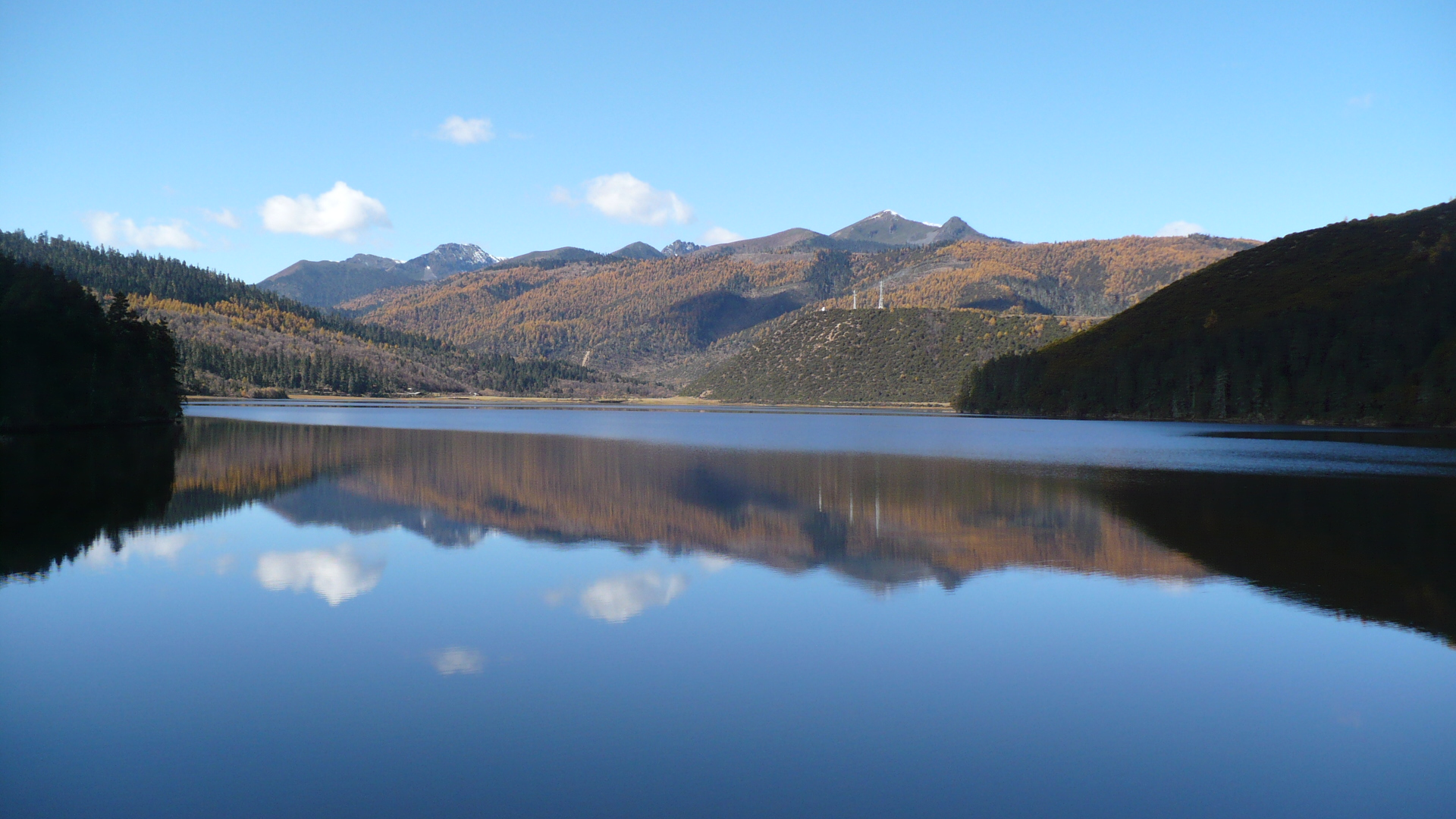 Bita Lake, Potatso (Pudacuo) National Park, Diqing